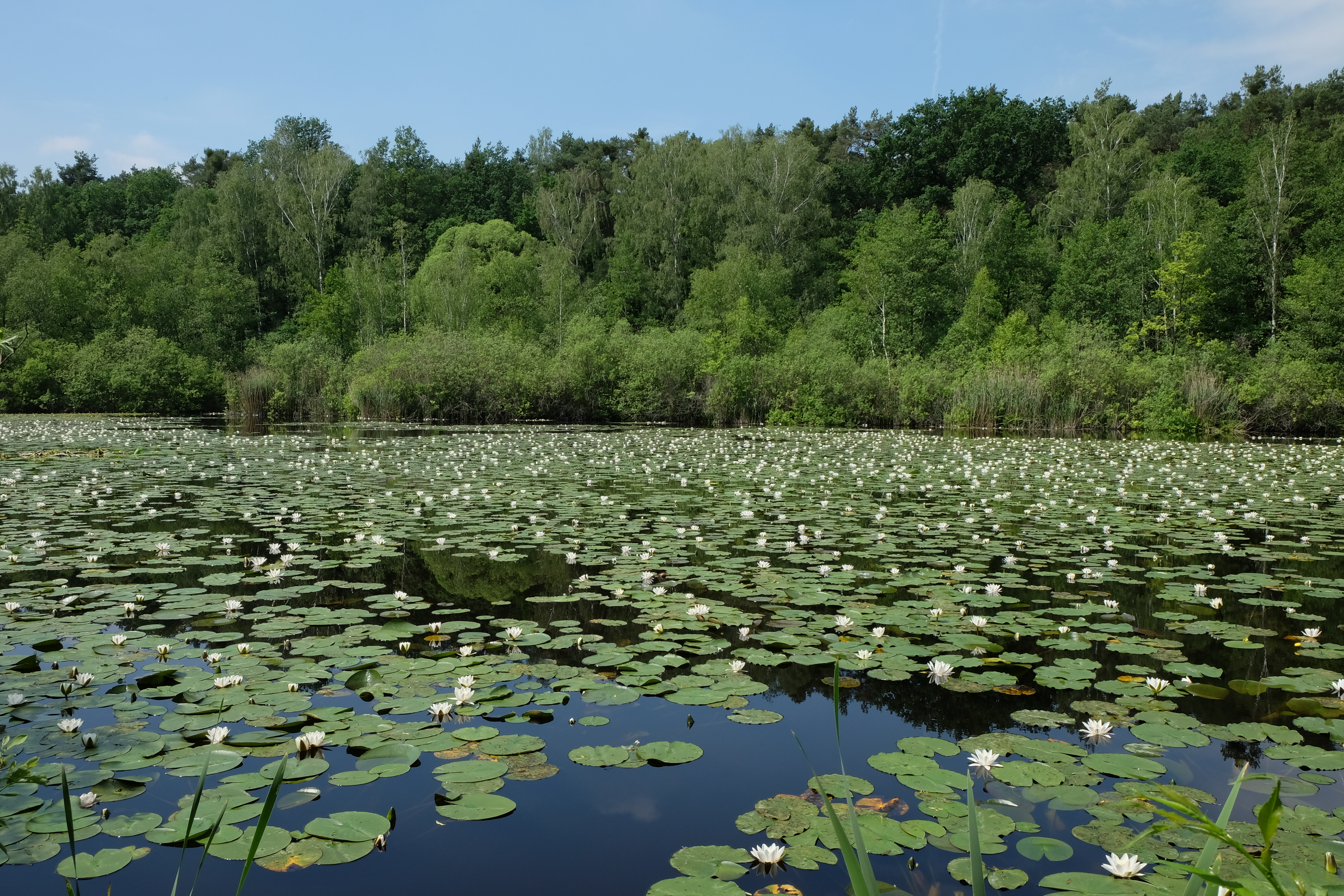 Sutschketal Nature Reserve in the state of Brandenburg, Germany. White water lilies on a pond.